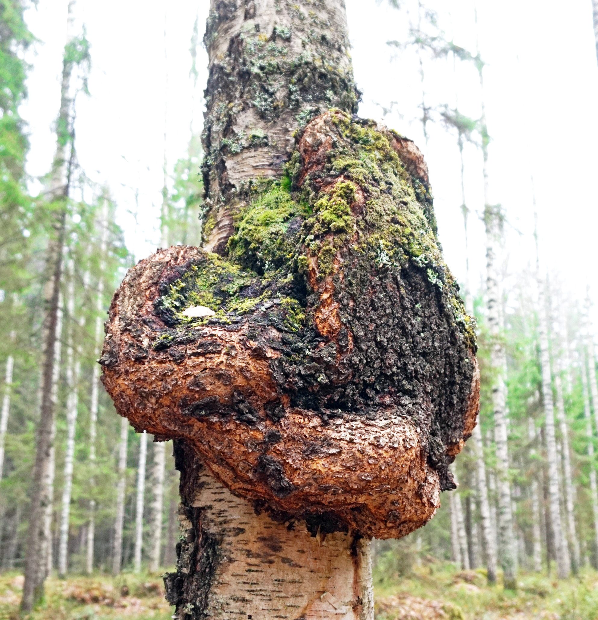 Burl on a tree in Jyväskylä.This photograph was taken with a Sony ILCE-5000